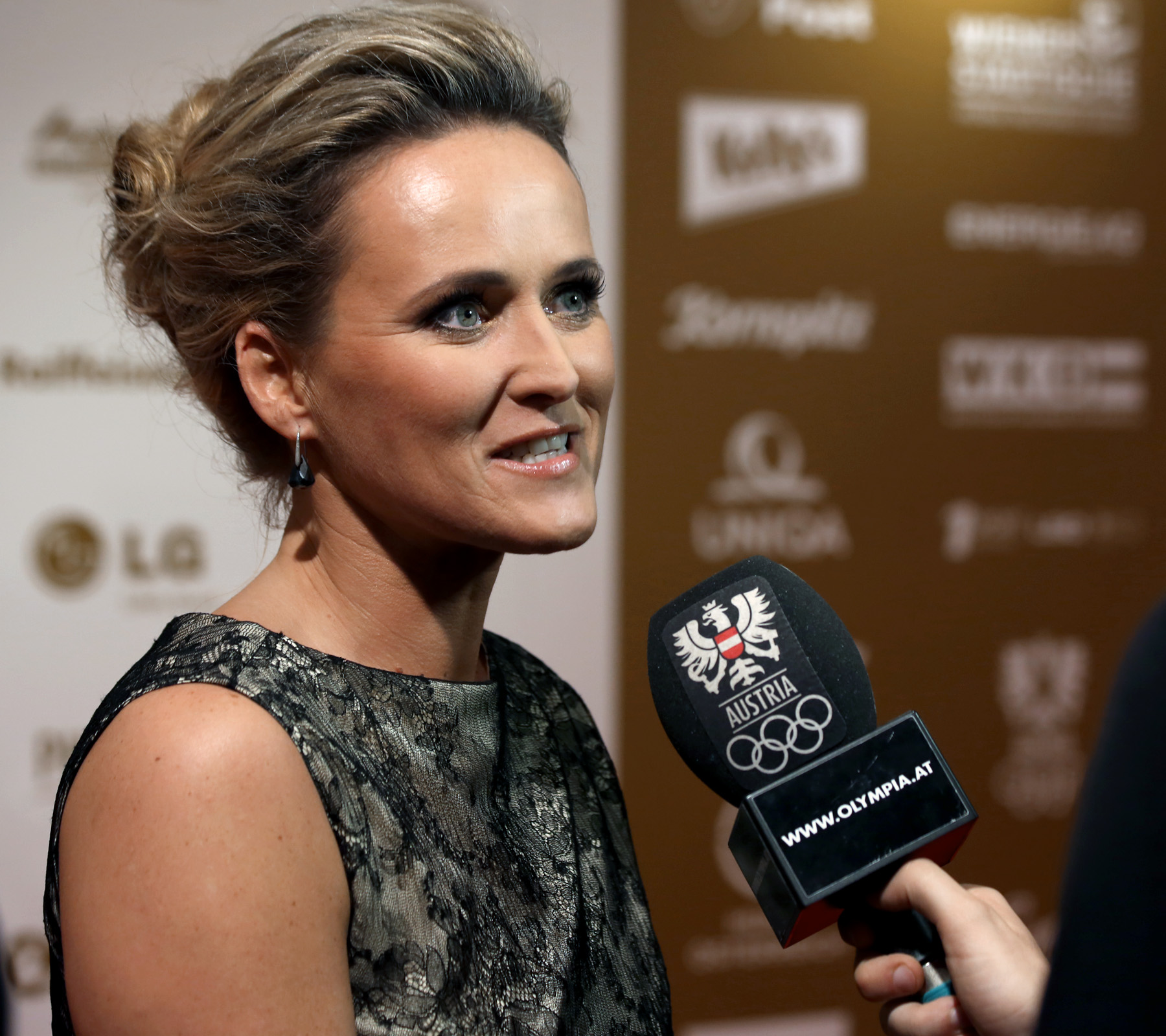 Alexandra Meissnitzer at the award show for the Austrian Sportspersonalities of the year 2013 at Austria Center Vienna (Vienna, Austria).